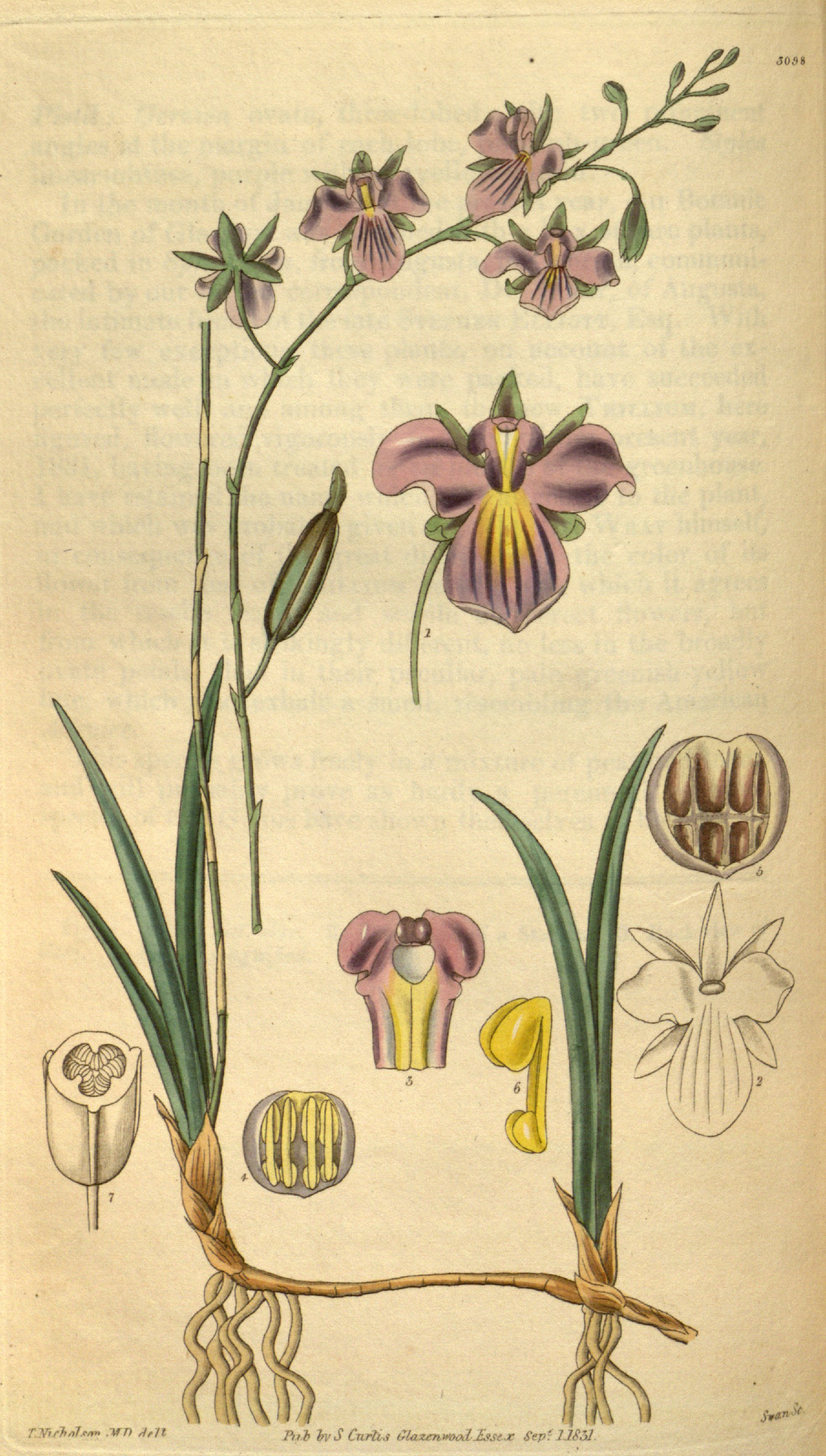 Illustration of Tetramicra canaliculata (as syn. Brassavola elegans)